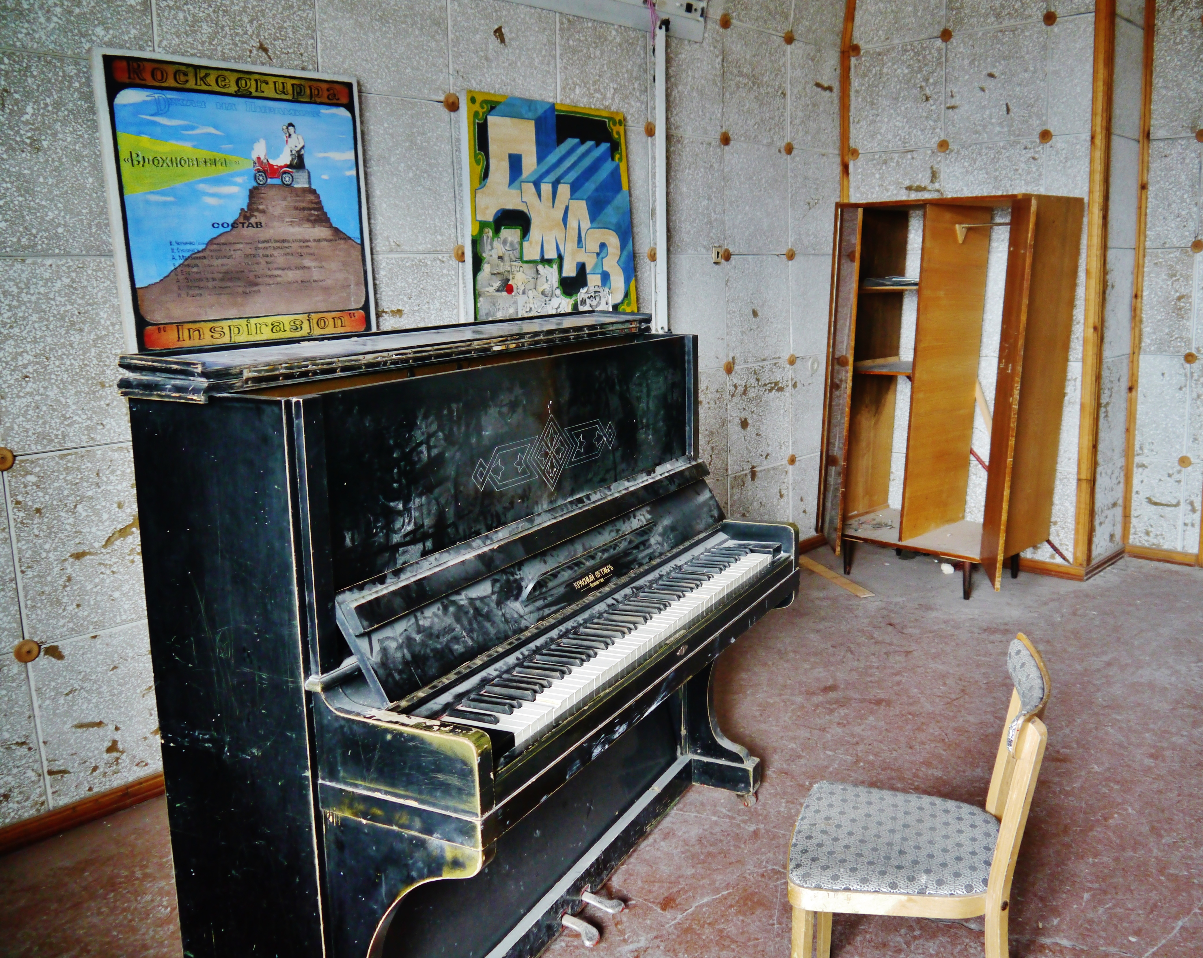 Music Room of the Cultural Centre, Pyramiden, Spitsbergen, Norway